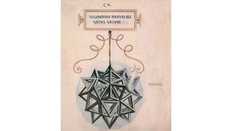 Illustration in a book of Luca Pacioli